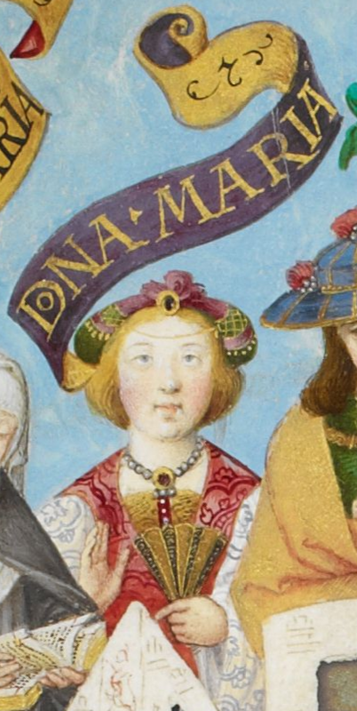 D. Mary (1290-1340), Lady of Gibraleón, daughter of King Denis I of Portugal, in a 16th century miniature.